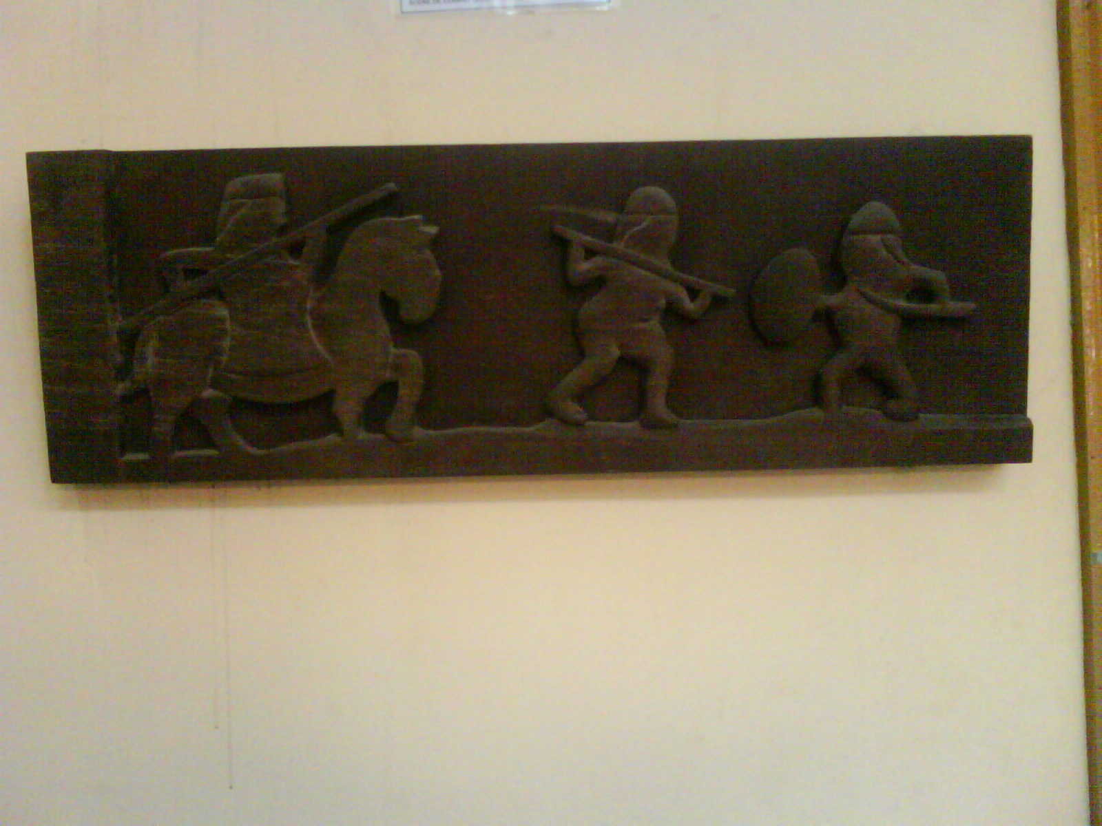 Wood relief, 13th century Vietnam. HCMC Museum of National History.